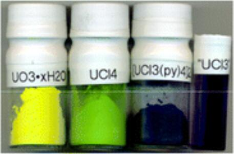 Sample of uranium compounds.